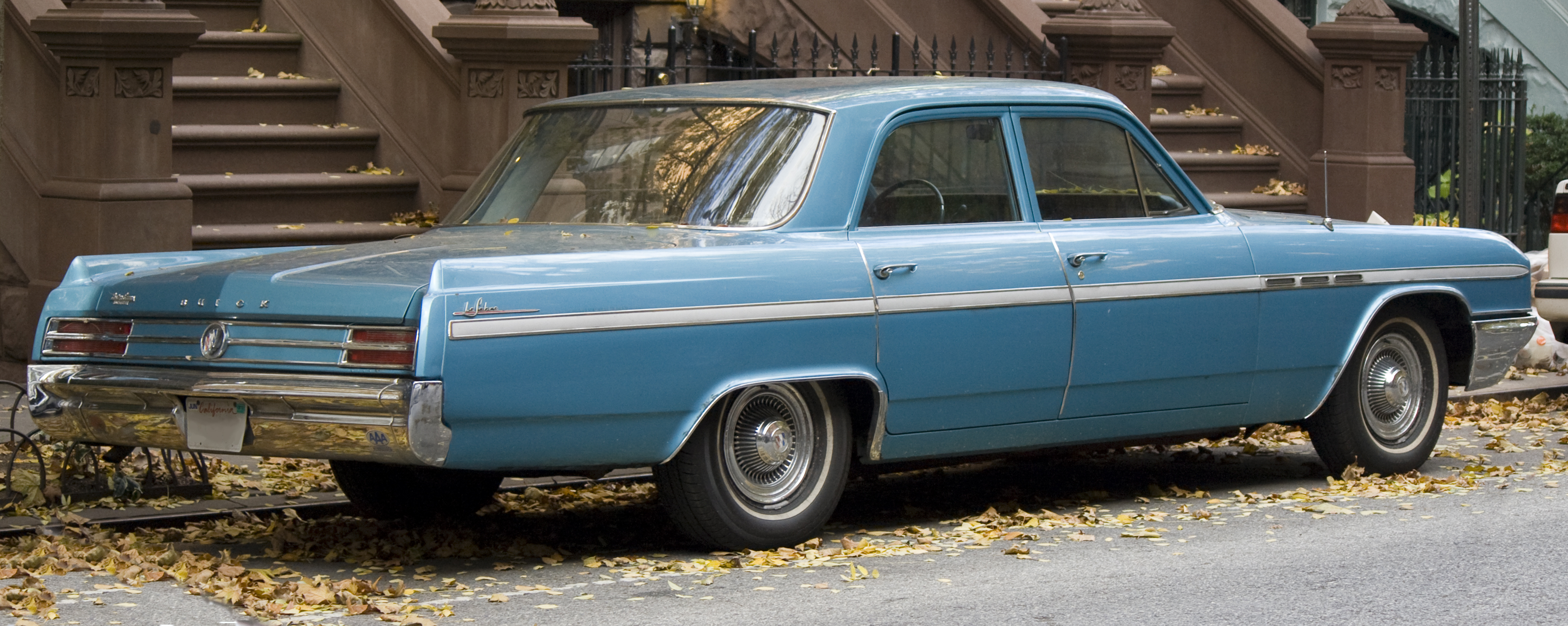 Rear 3/4 view of a 1964 Buick LeSabre Custom Sedan (4469) - this, the slightly more luxurious 'Custom' version, features wide full-length side moldings with a brushed metal insert whereas the regular LeSabre only received a narrow strip of a moulding along the rear third of the body.